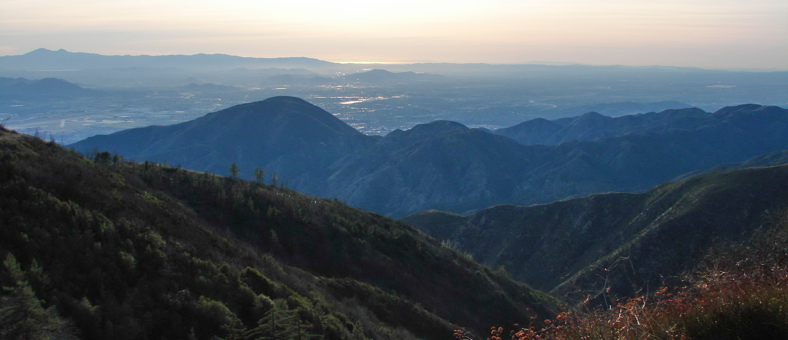 View of San Bernardino Valley to Pacific Ocean, from the San Bernardino Mountains.